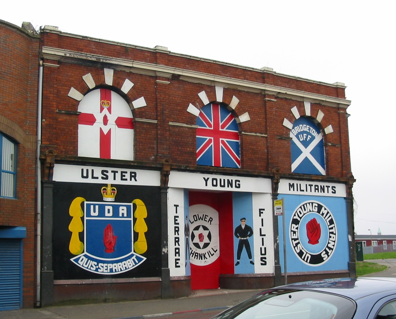 UDA mural in Lower Shankill area, Belfast. Photo by E Asterion u talking to me? 21:27, 11 June 2006 (UTC)